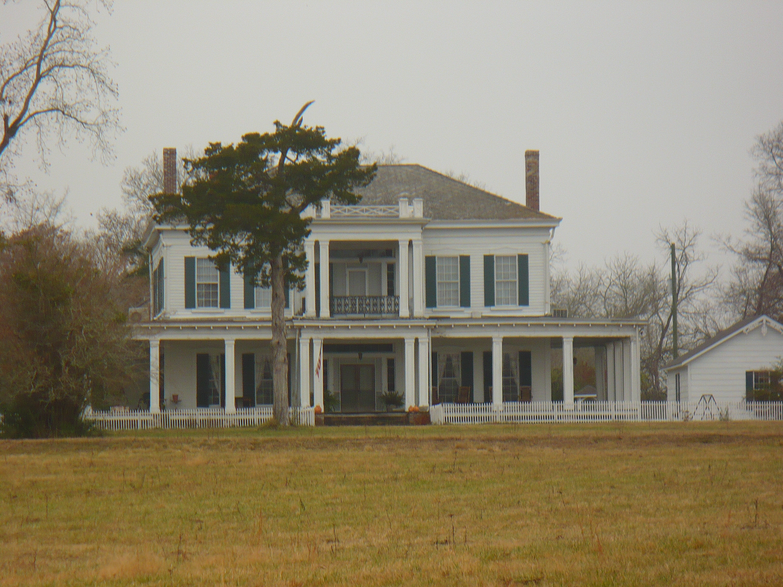 Cedar Grove Plantation near Faunsdale, Marengo County, Alabama.